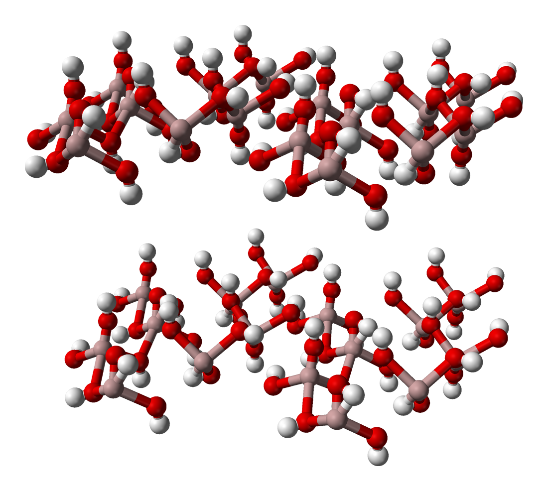 Ball-and-stick model of the part of the crystal structure of gibbsite (aluminium hydroxide), Al(OH)3. Crystal structure data from AMCSD.